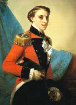 Carlo III of Bourbon-Parma (January 14, 1823 - March 27, 1854) was Duke of Parma from 1848 to 1854. He was the son of Charles II of Parma and Maria-Theresa of Savoy, daughter of Victor Emmanuel I of Sardinia.